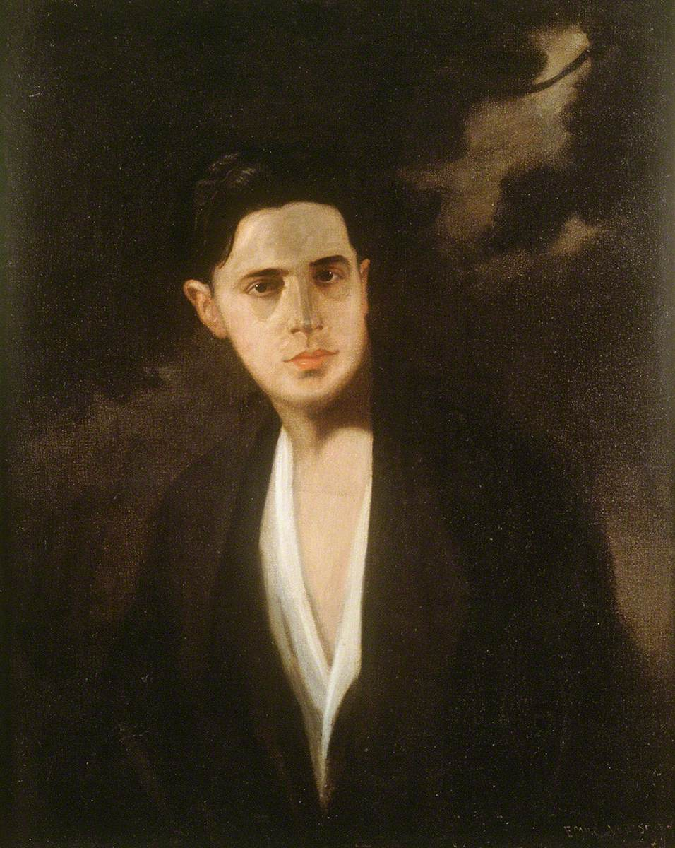 A painting from the Framed Works of Art collection at the National Library of wales.